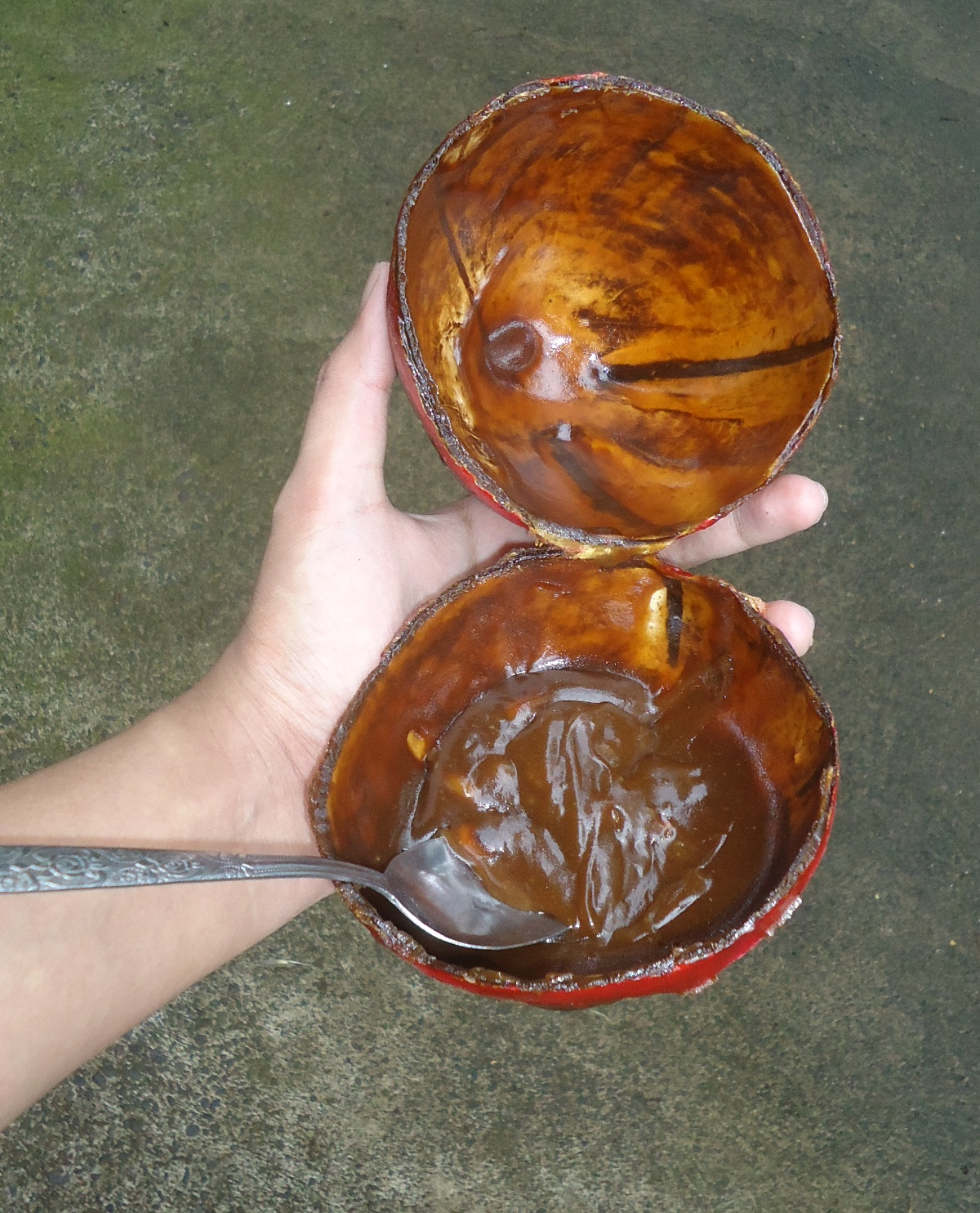 An opened Bohol Calamay, a sweet viscous dessert from the Philippines traditionally packaged into empty coconut shells.